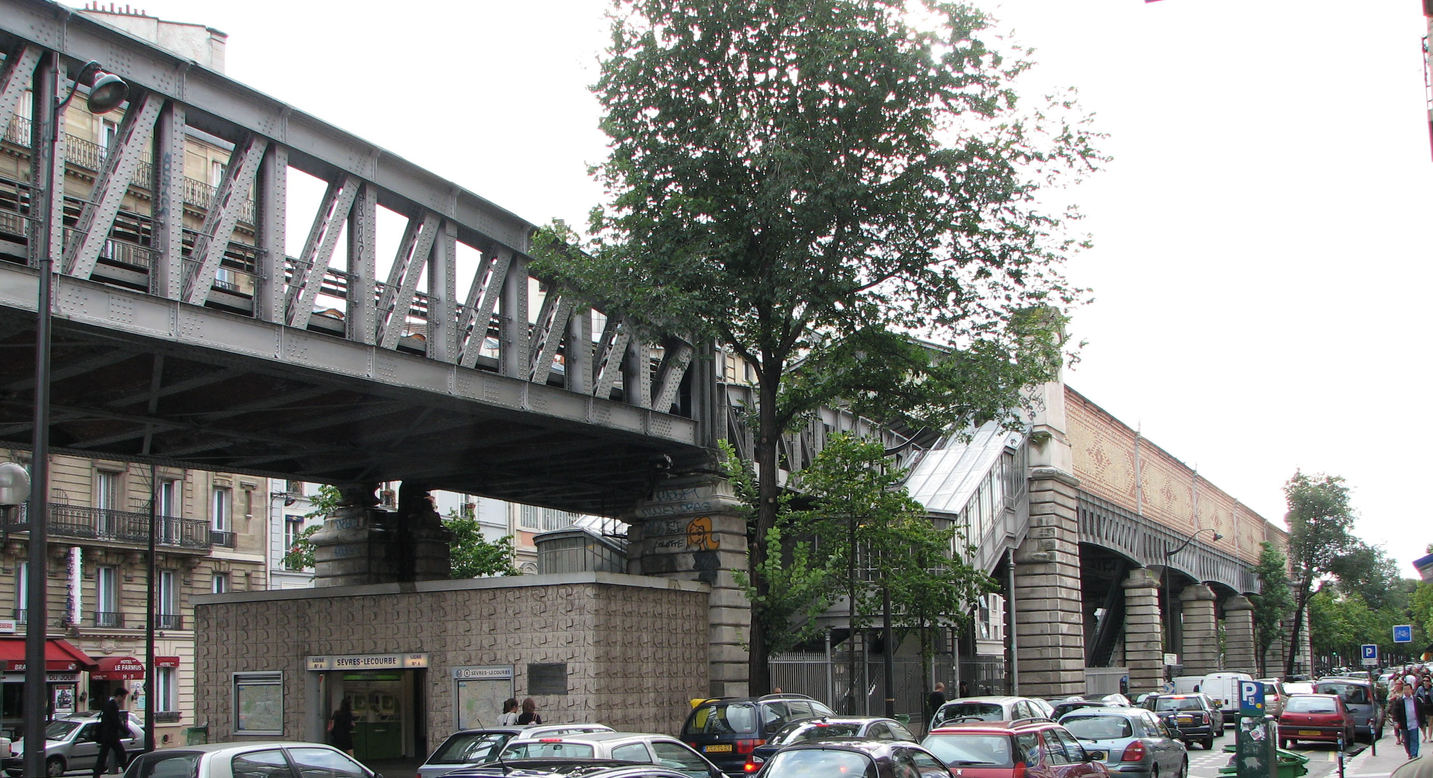 Sèvres-Lecourbes metro station, Paris